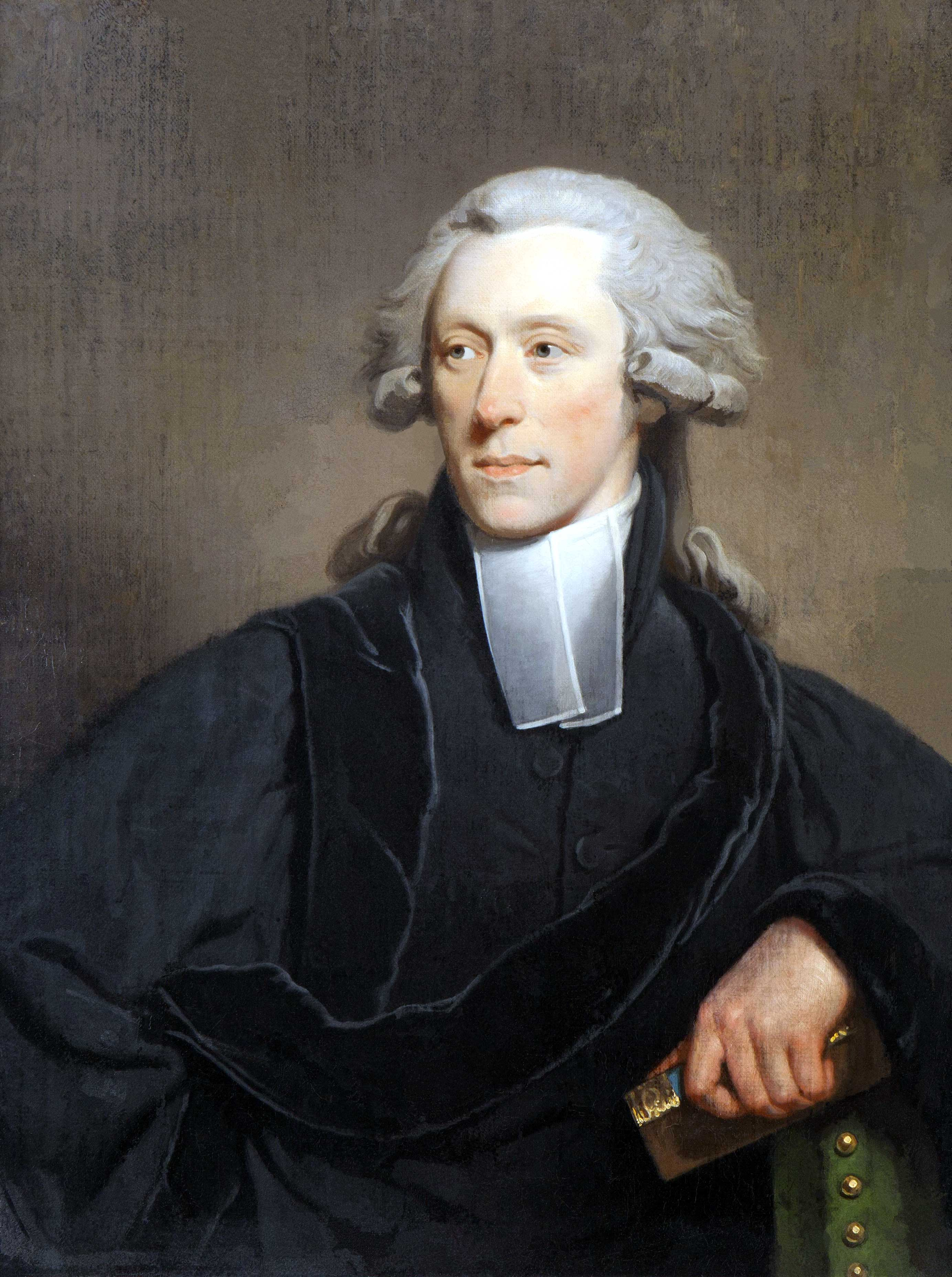 Sebald Fulco Johannes Rau (1765-1807) Dutch poet, orientalist and Reformed theologian